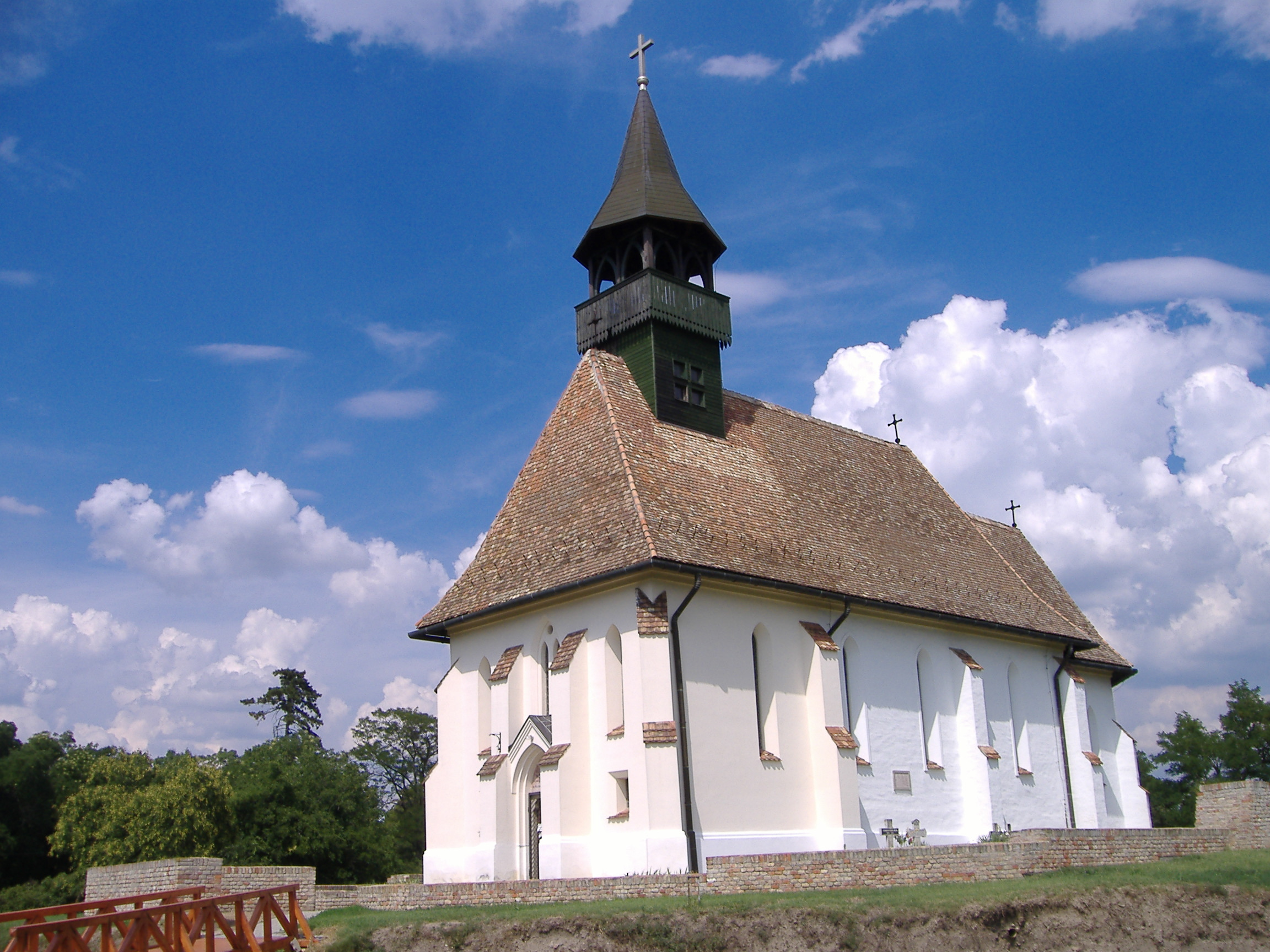 Fortified church in Óföldeák, a Hungarian village near Makó, built in gothic style in the 15th century A.D.